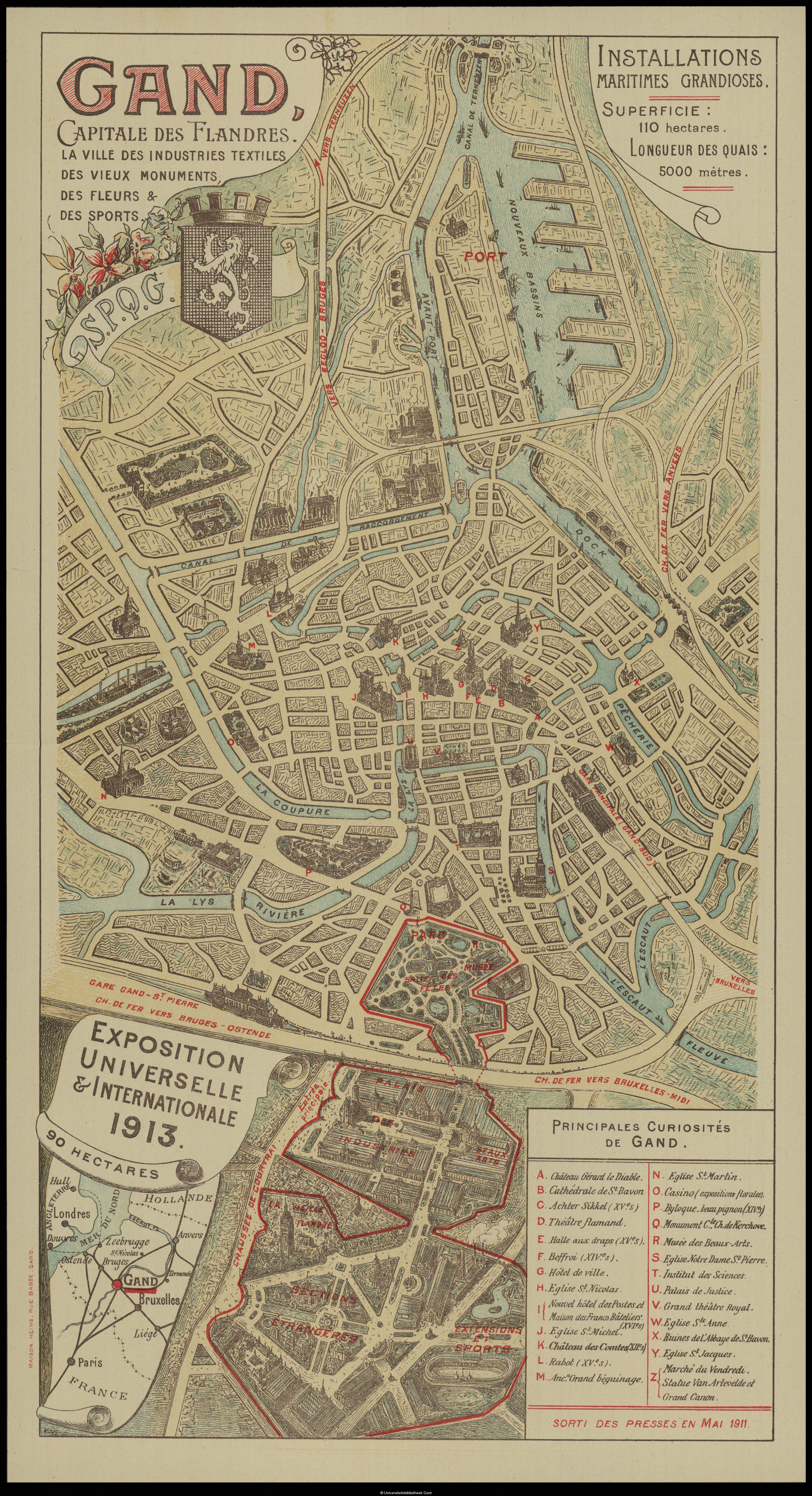 Map of Ghent by Armand Heins, 1913